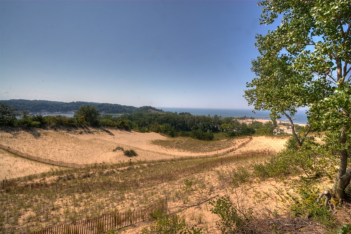 View to the west from the top of Mt. Pisgah, Holland State Park, Holland, Michigan.